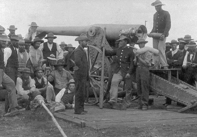 Long Tom, six inch Creusot, used at siege of Mafeking in Anglo-Boer War, 1899-1902